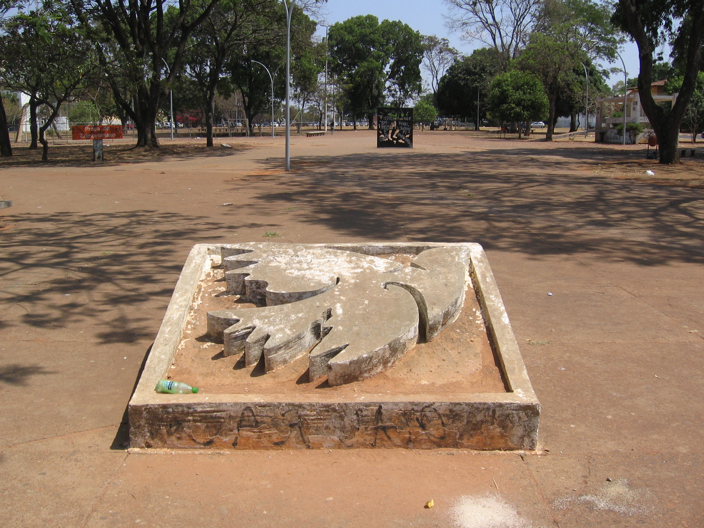 Picture of Compromise Square in Brasilia, Brazil